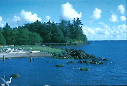 Chinook Point in Pacific County, Washington